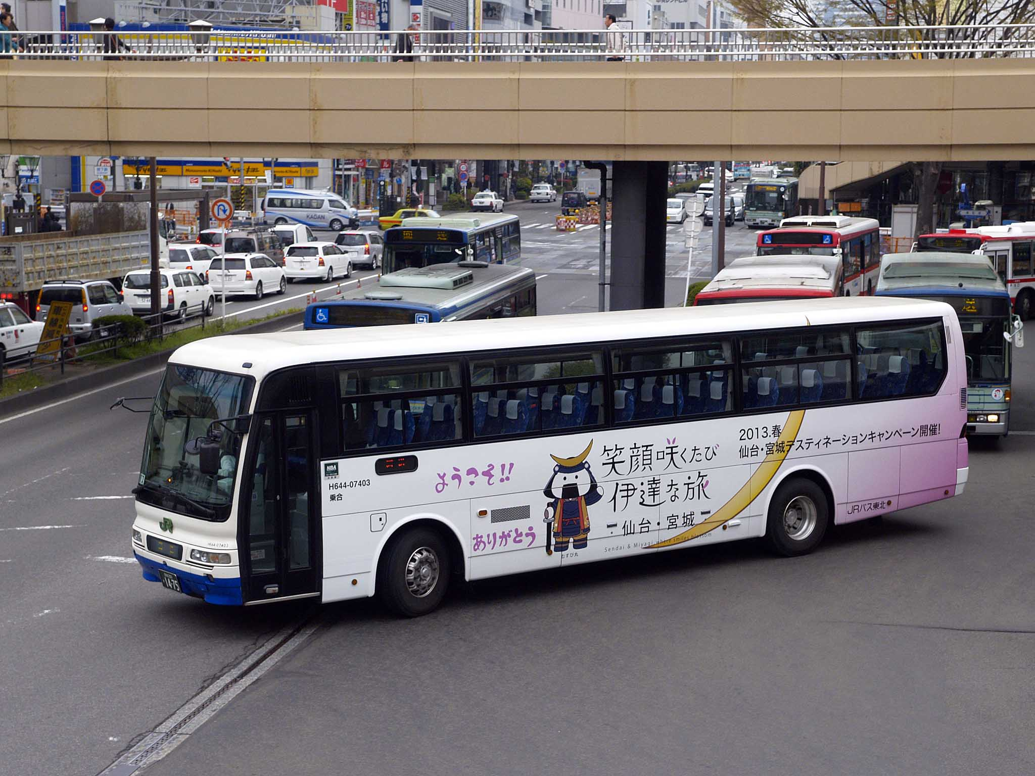 Fleet of JR Bus Tohoku, designed "Musubi-maru" for Distenation campaign of Miyagi Prefecture since 2012. Model: Mitsubishi Fuso Aero Bus PJ-MS86JP License plate: MGM200 KA1475 Place: JR Sendai Station West, Aoba Ward, Sendai City, Miyagi Japan